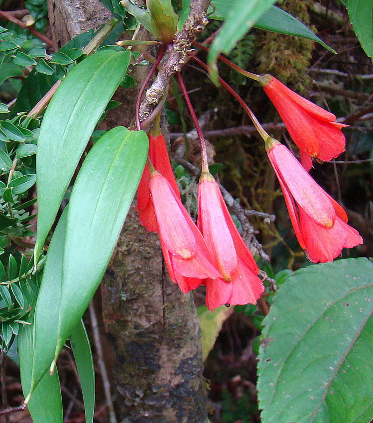 Native to the mountains of Costa Rica and adjacent Panama. Photo from Volcan Baru in the latter. In context at